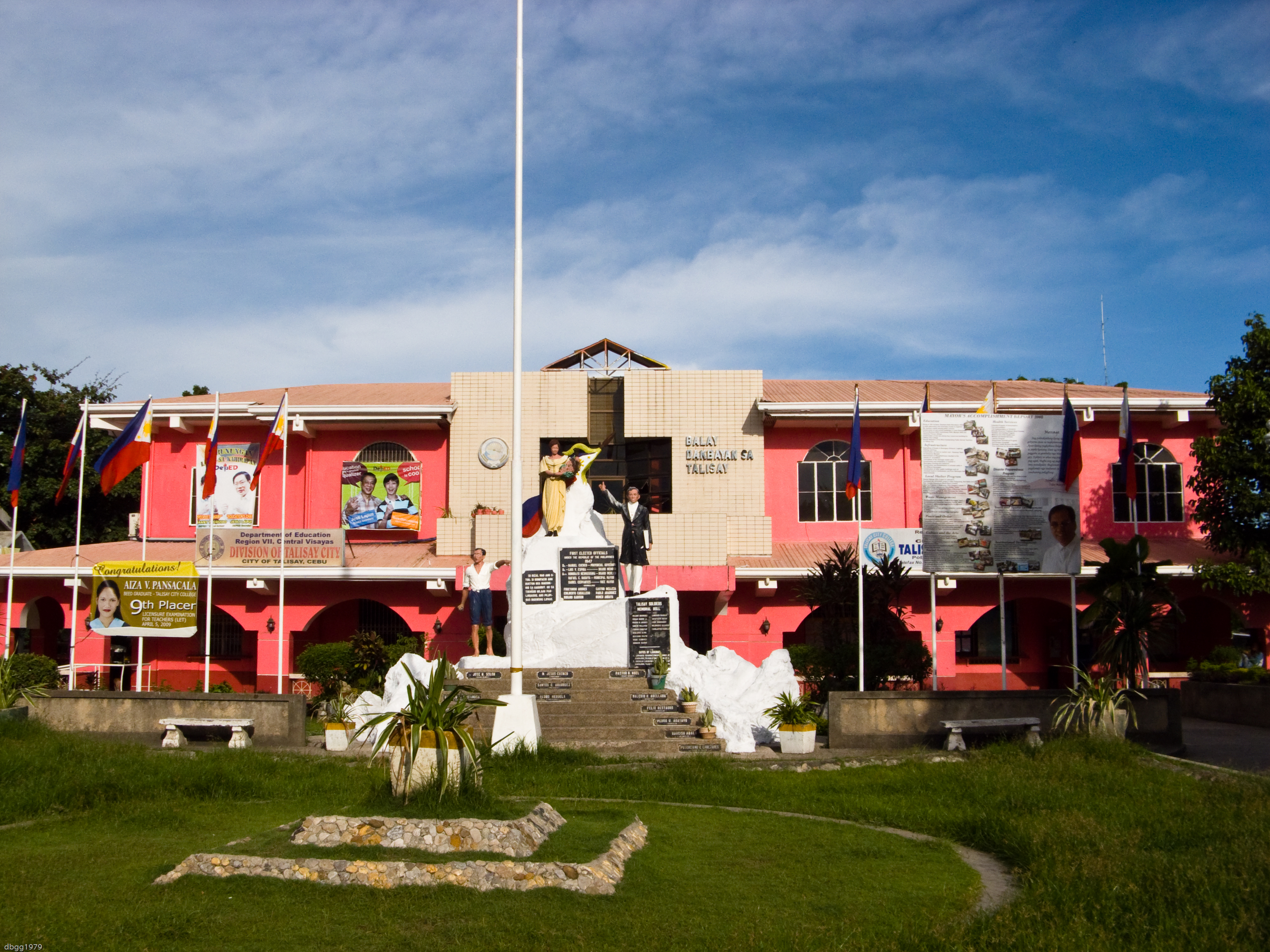 Talisay City Municipal Hall, Cebu, Philippines